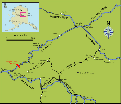 A map of Interior Alaska in 1961, with roads, rivers, and prominent settlements labeled. Prominently labeled is the site of the proposed Rampart Dam.